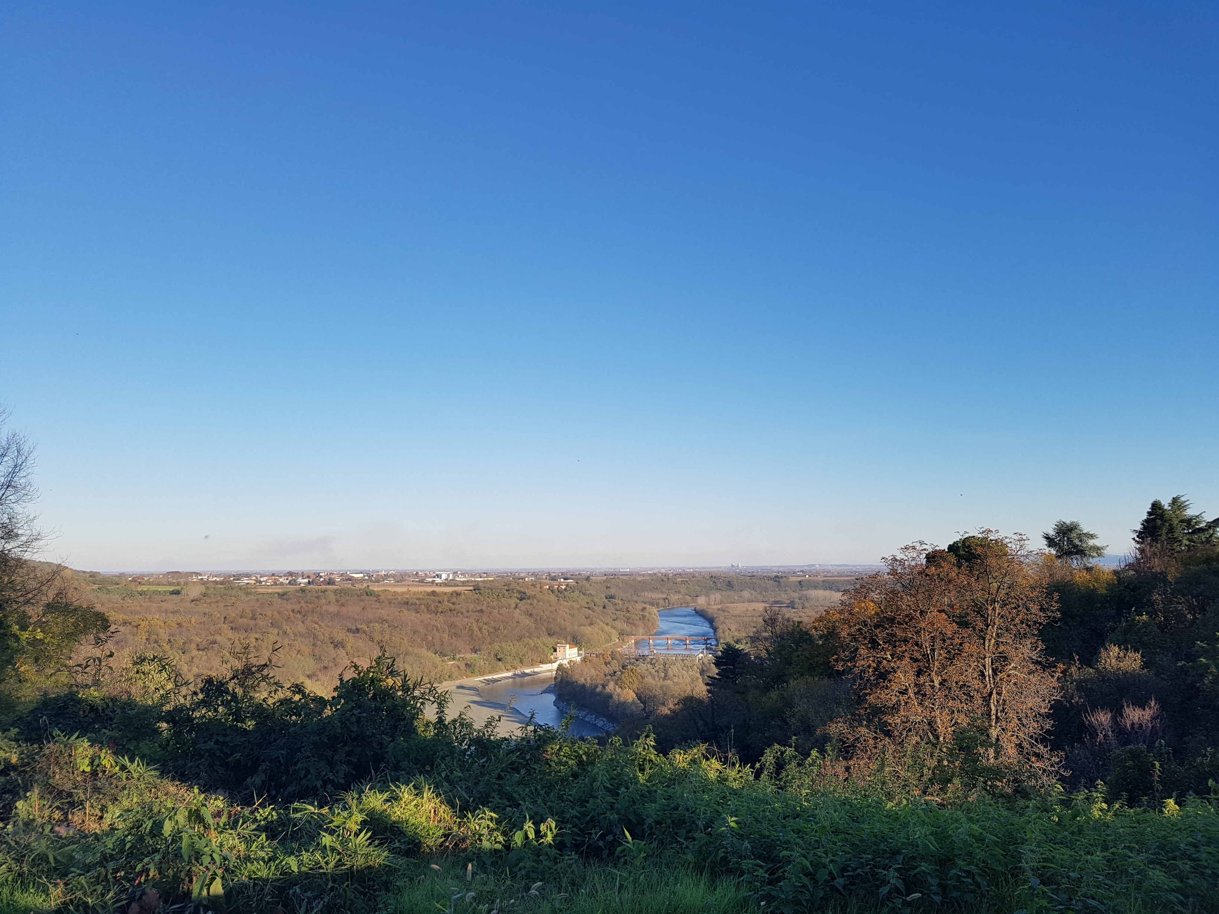 Dora Baltea river seen from Mazzè Castle, Piedmont, Northern Italy